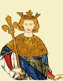 Wenzel II King of Poland and Bohemia author-Maciej Szczepańczyk-user Mathiasrex